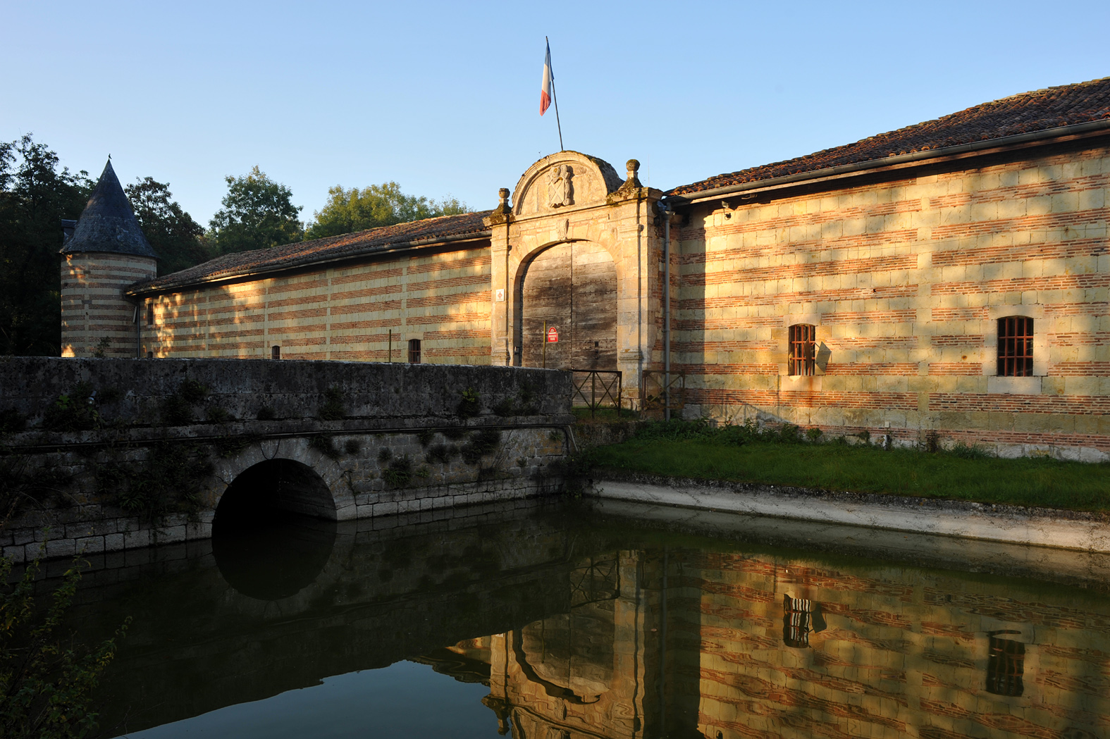 Château de Braux-Sainte-Cohière bridge over the moat; Marne, France.